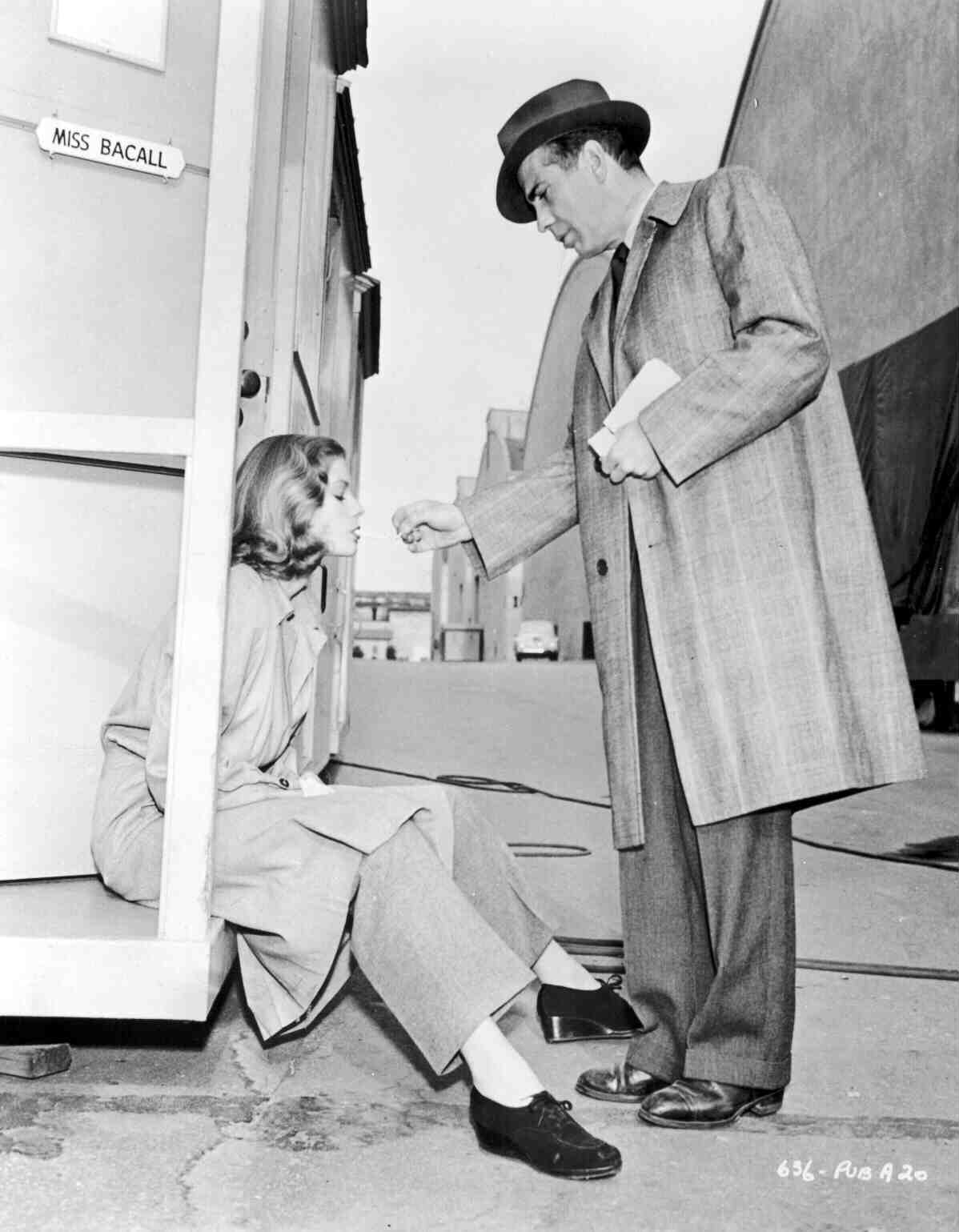 The Big Sleep, Behind the scenes